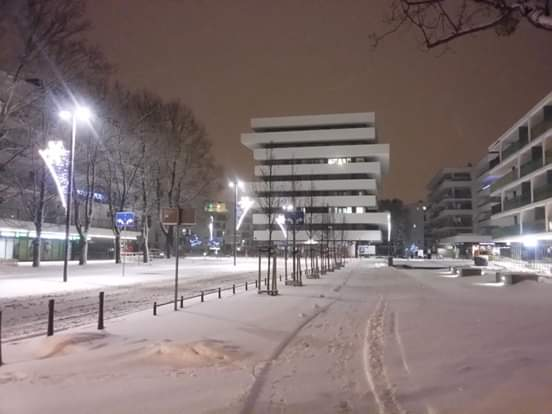 Żoliborz Artystyczny, Cz. Niemena square